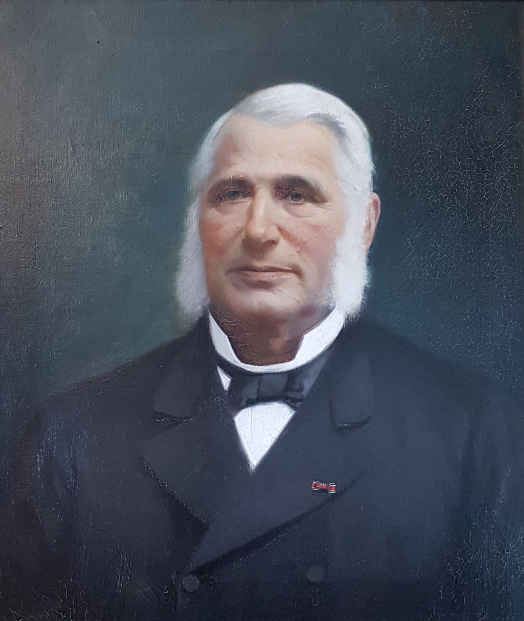 Photo of a painting at Arendal old town hall - Julius Marius Smith